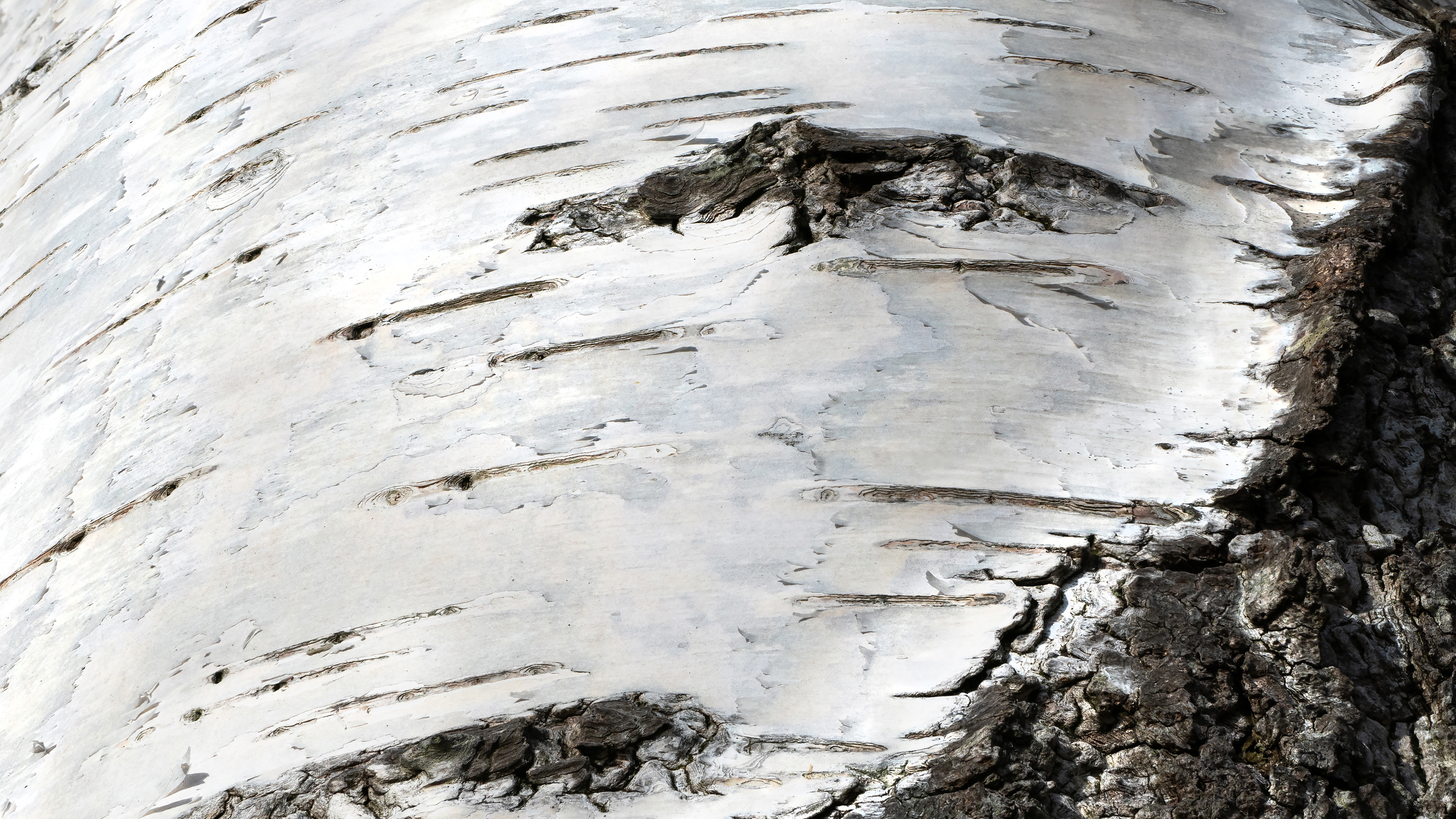 Part of the trunk on a birch (Betula pendula) in Norrkila, Lysekil Municipality, Sweden. Focus stacking of 9 pictures (using Photoshop).